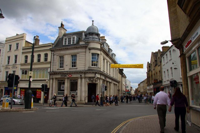 HSBC Bank on Market Place and Cricklade Street